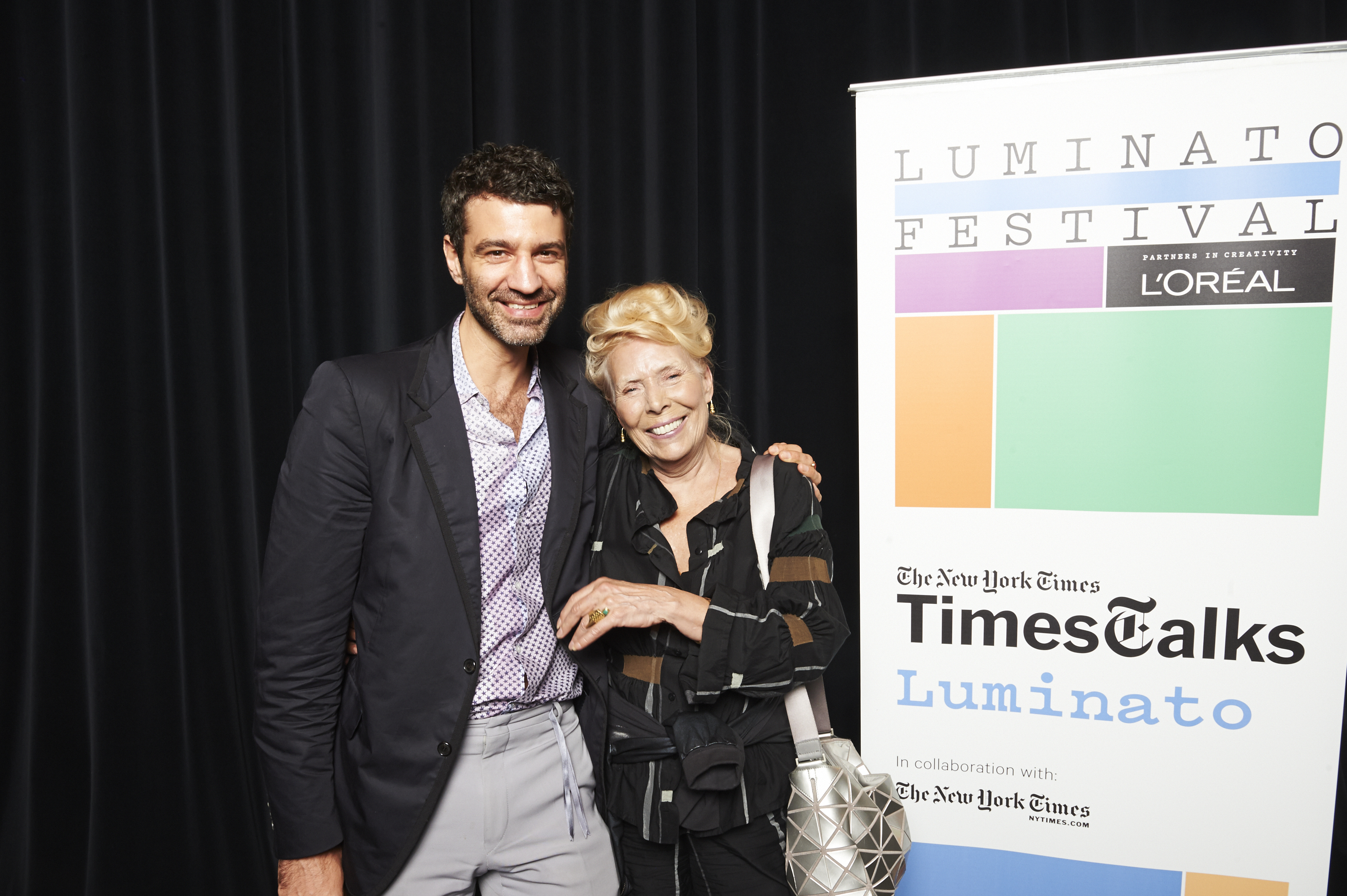 Photograph provided by Jörn Weisbrodt's assistant, Mark Rochford. Taken on 16 June 2013 at the Luminato Festival. SongsforLulu (talk) 09:14, 29 June 2014 (UTC)